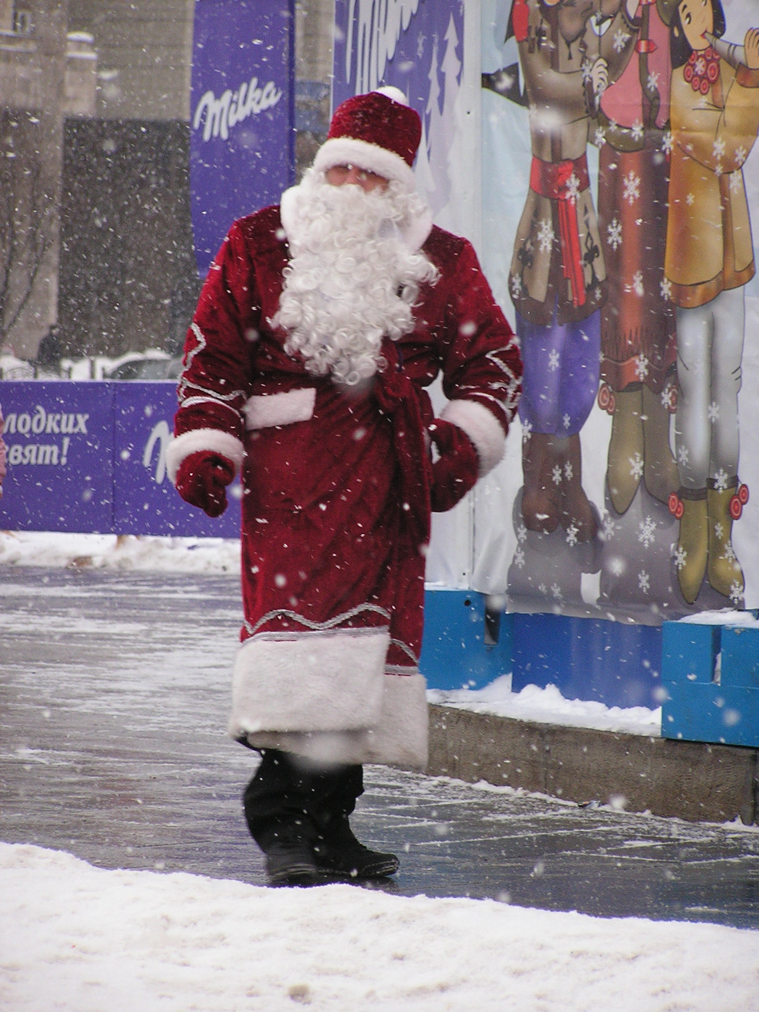 Kyiv. Maidan Nezalezhnosti